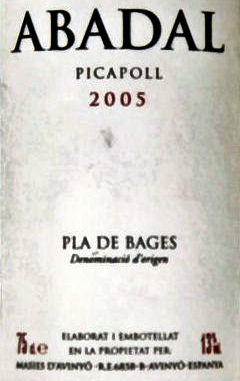 Label of Picapoll Abadal, a wine from D.O. Pla de Bages